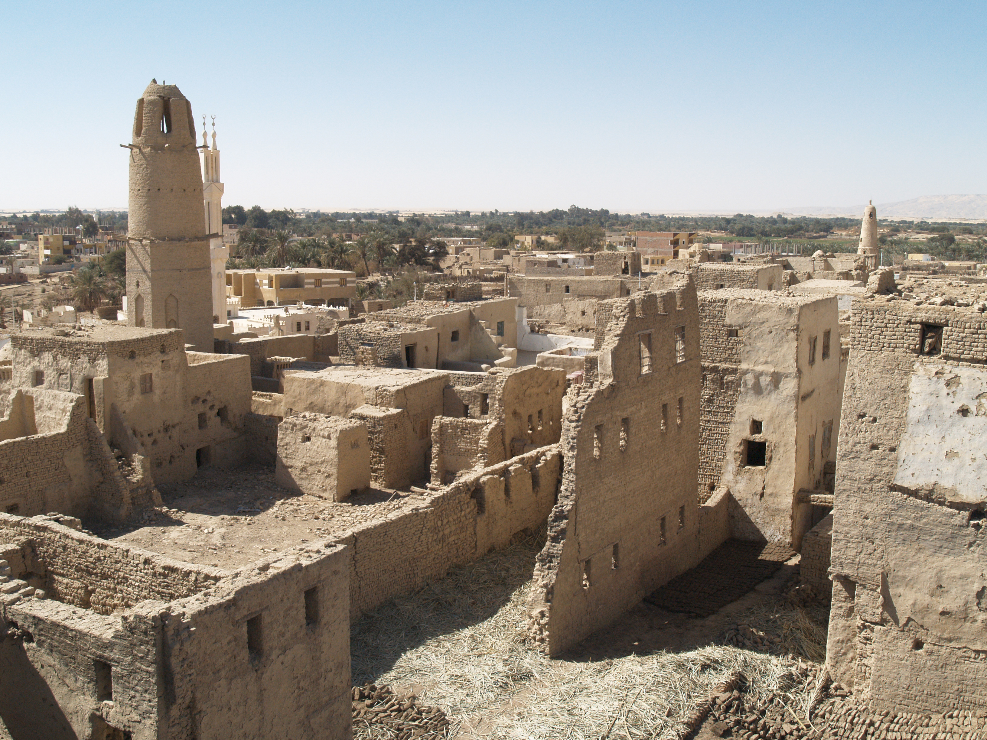 Al-Qasr is set at the foot of pink limestone cliffs on the northern rim of the oasis. The architecture of the houses, which engulf the cool narrow streets and alleyways despite the summer heat and protect residents during sandstorms, attests to the importance the Ottomans placed in securing the remote oasis town.